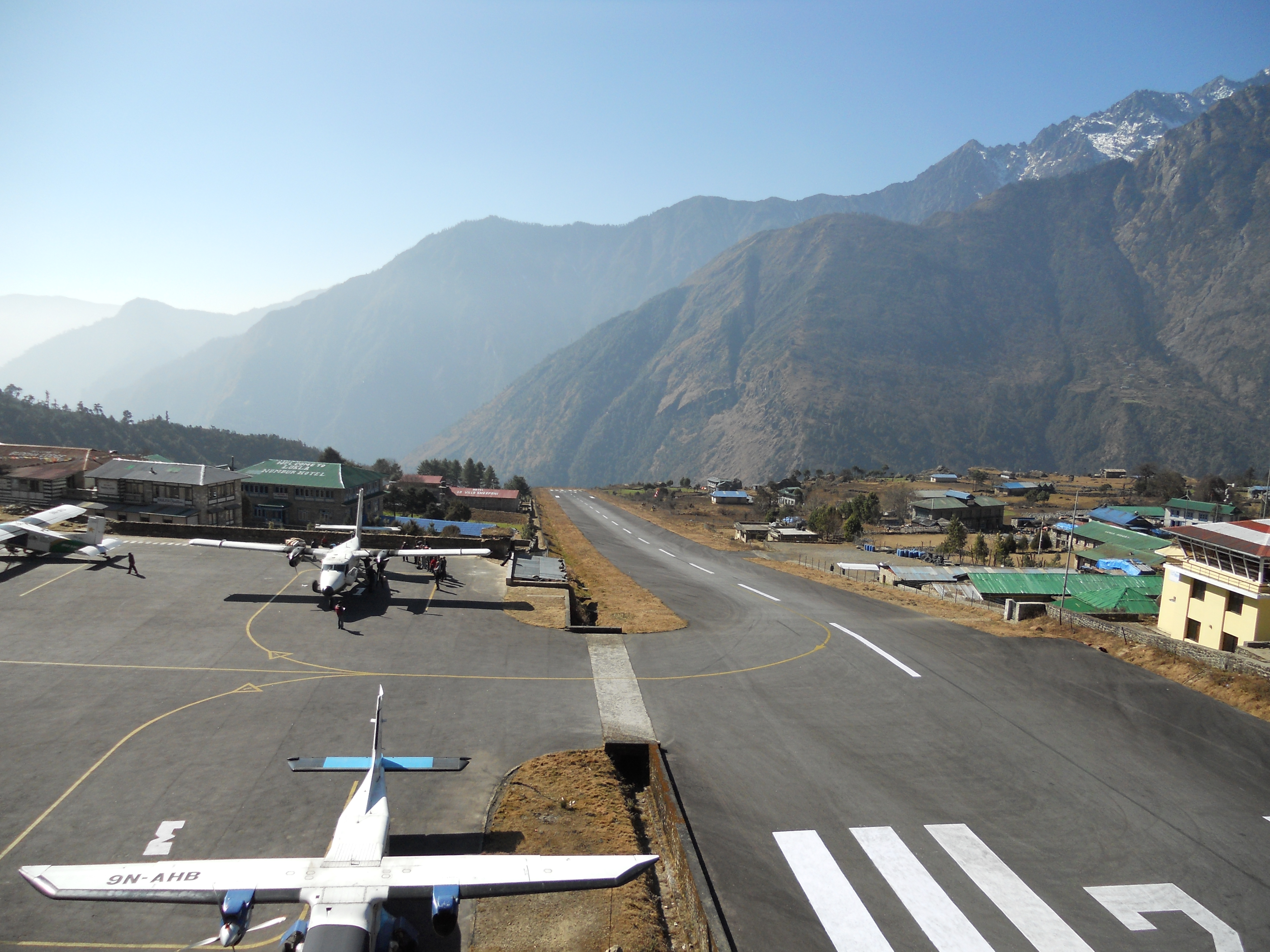 Solokhumbu airport taken with help of mr Shiva shrestha